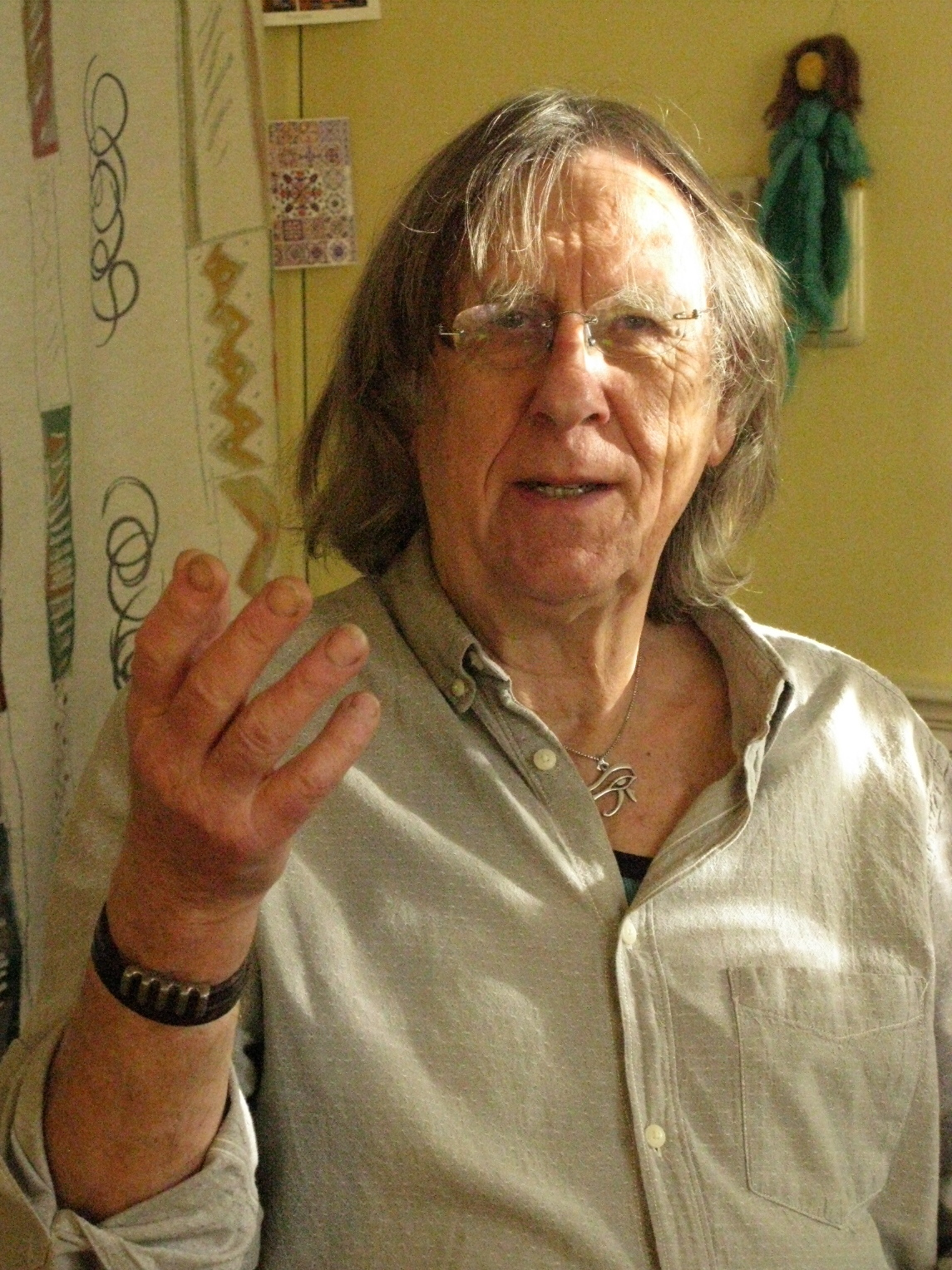 Günter Rexilius, Jan. 2020, photograph taken in Moenchengladbach,Germany, giving a private lecture